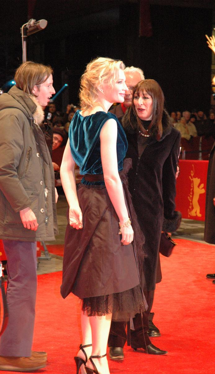 Wes Anderson, Cate Blanchett and Anjelica Huston in Berlin 2005.